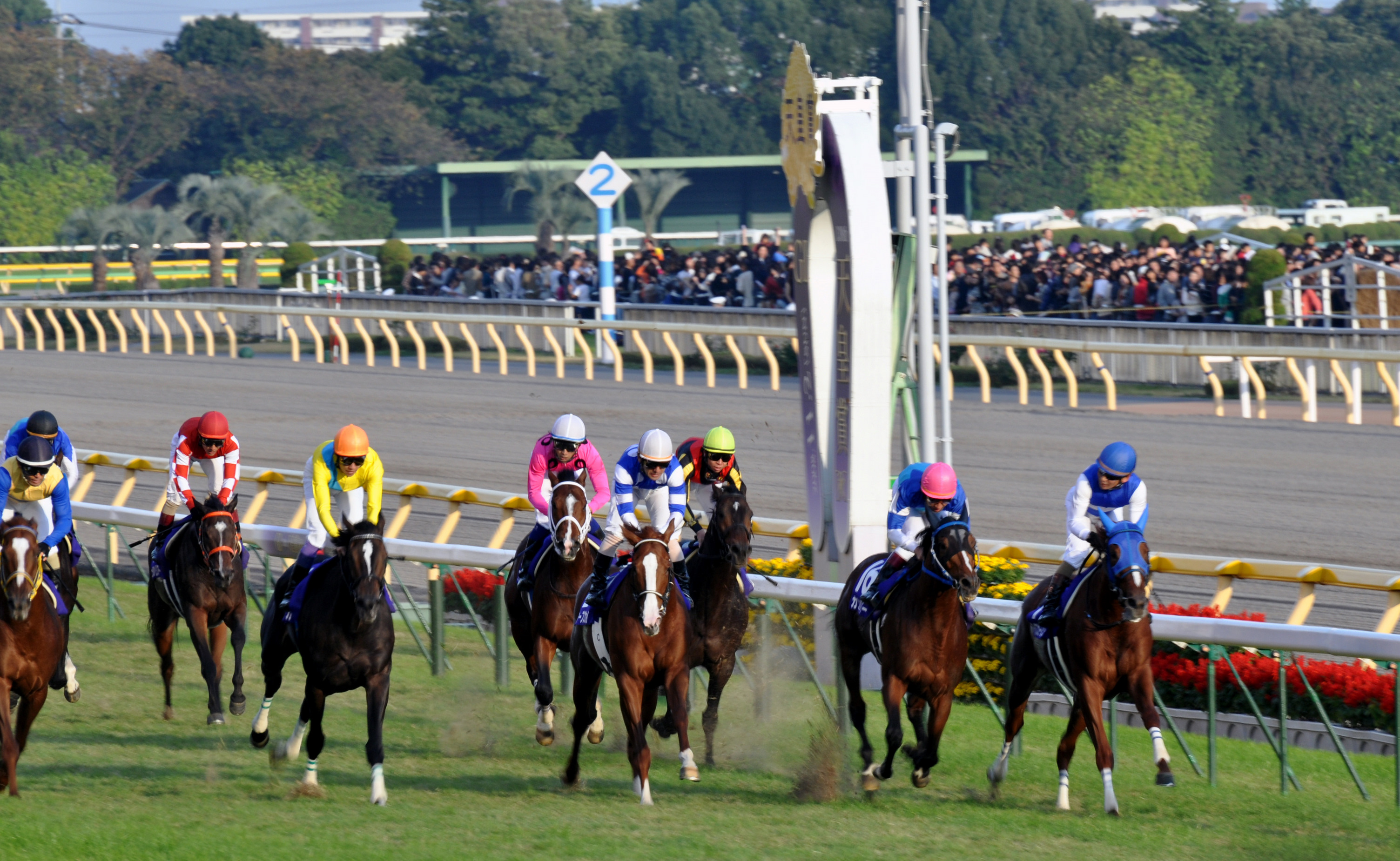 138th Tenno Sho (2008-11-02)